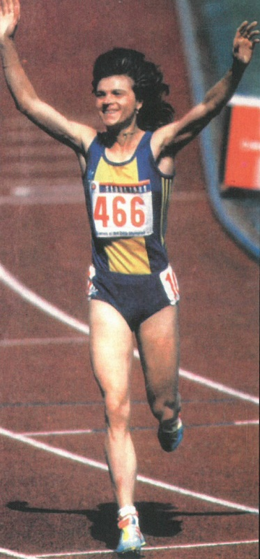 Paula Ivan, 1988 Olympics